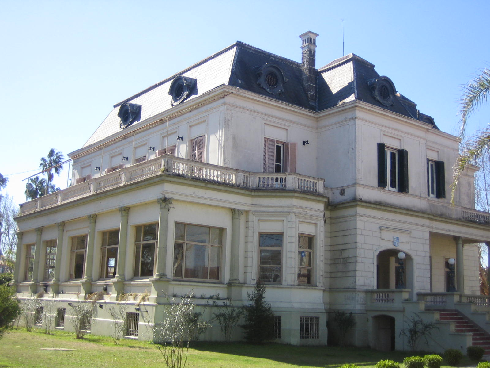 Canottieri Italiani Restaurant - Tigre